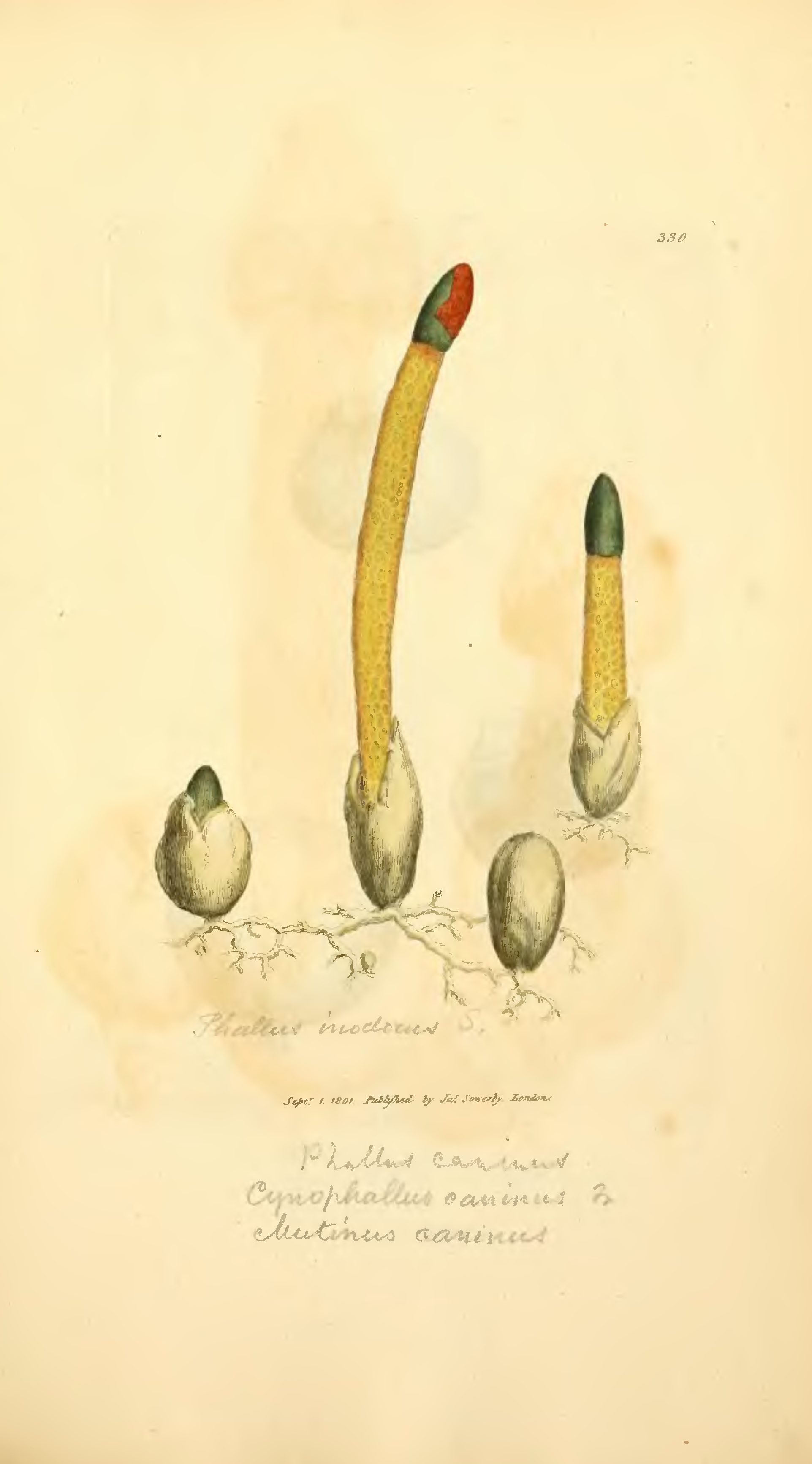 This is plate 330 from James Sowerby's Coloured Figures of English Fungi or Mushrooms. See below for more details.